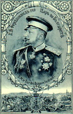 Afbeelding:Ac.ferdinand.jpg